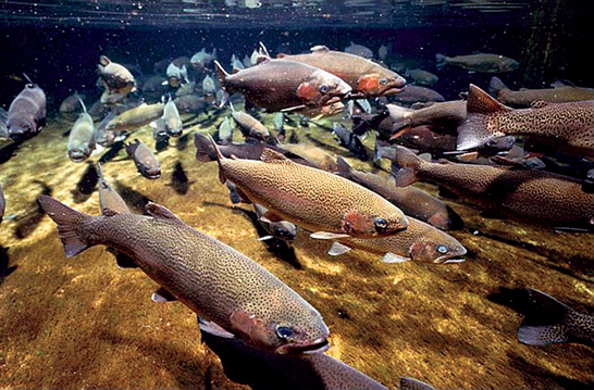 Salmon spawning in the Hanford Reach of the Columbia River, in the vicinity of the H-Reactor.